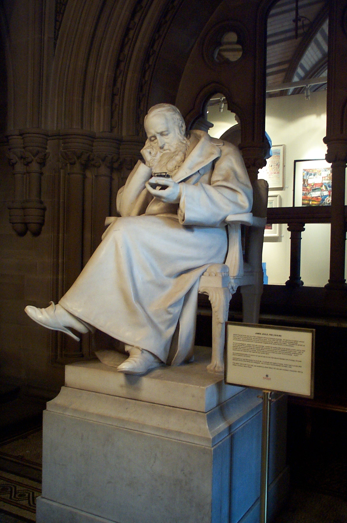 A statue of James Joule in the Manchester Town Hall, 2005-10-20. Copyright © 2005 Kaihsu Tai. James Prescott Joule